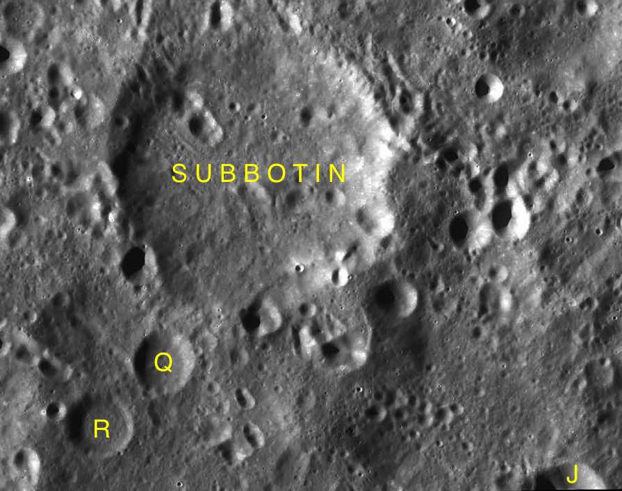 Part of the chart LAC-102 used for the presentation.